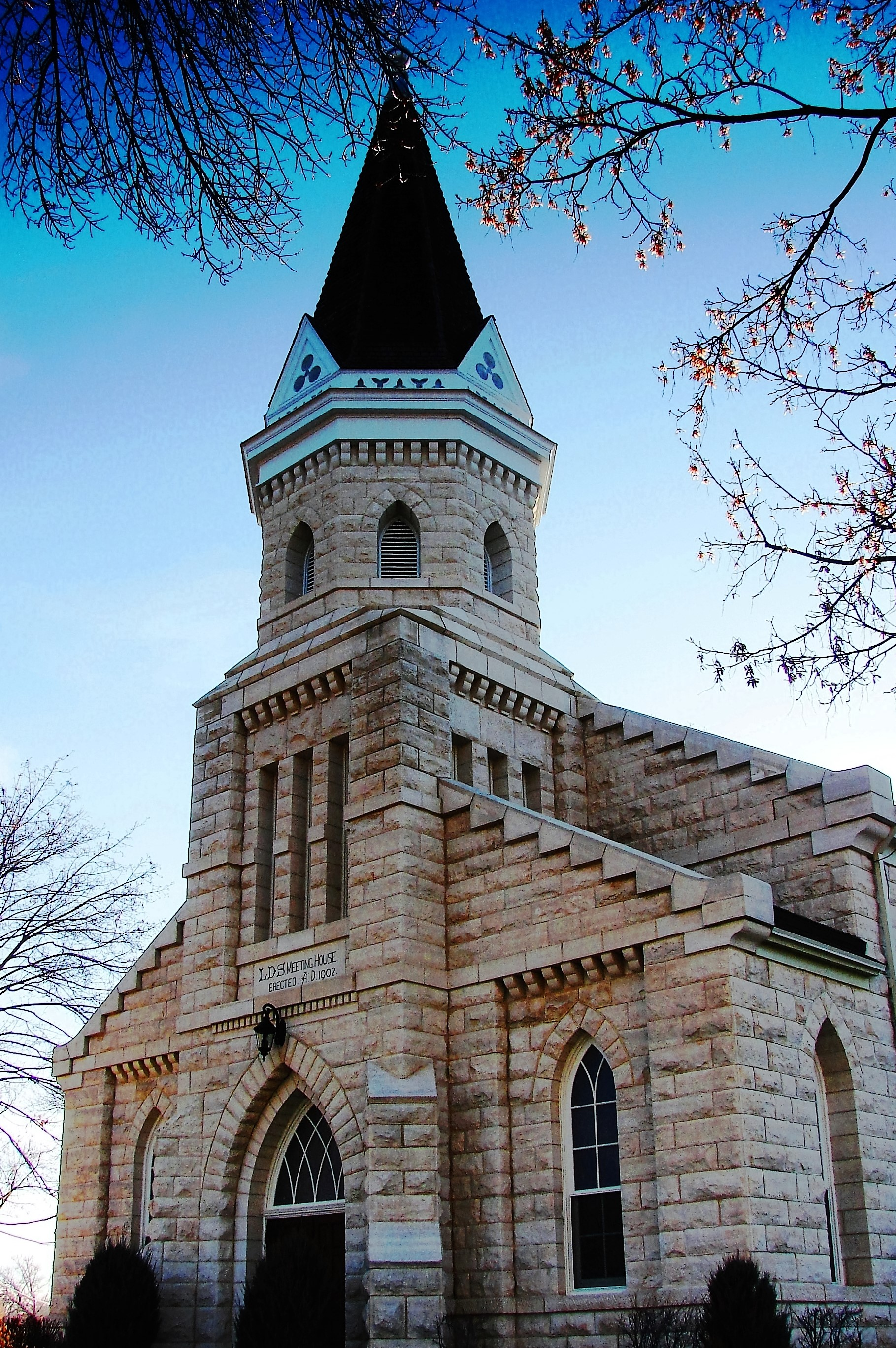 Located in the Spring City, Utah National Historical District